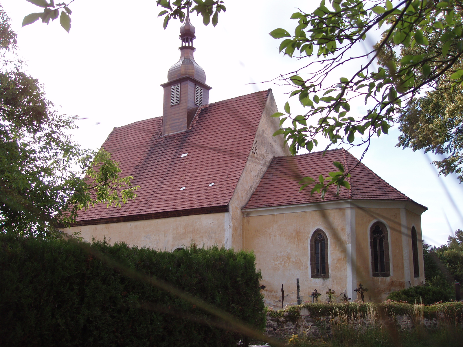 St. John the Baptist church in Dražice, South Bohemia, Czech Republic